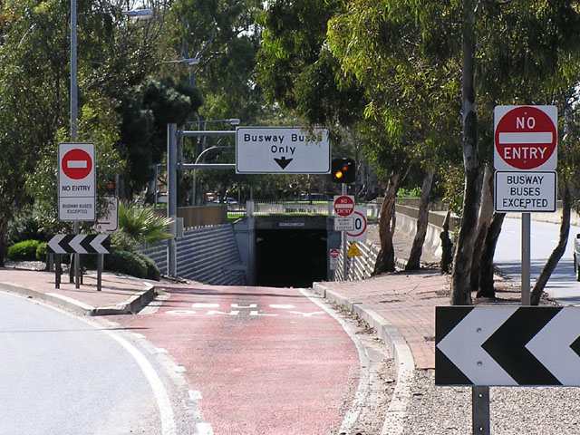 The Hackney Road entrance to the Adelaide O-Bahn. Photo by Adam Trevorrow, , taken 9th April 2005. Low resolution (640x480) rights released 19th February 2006.